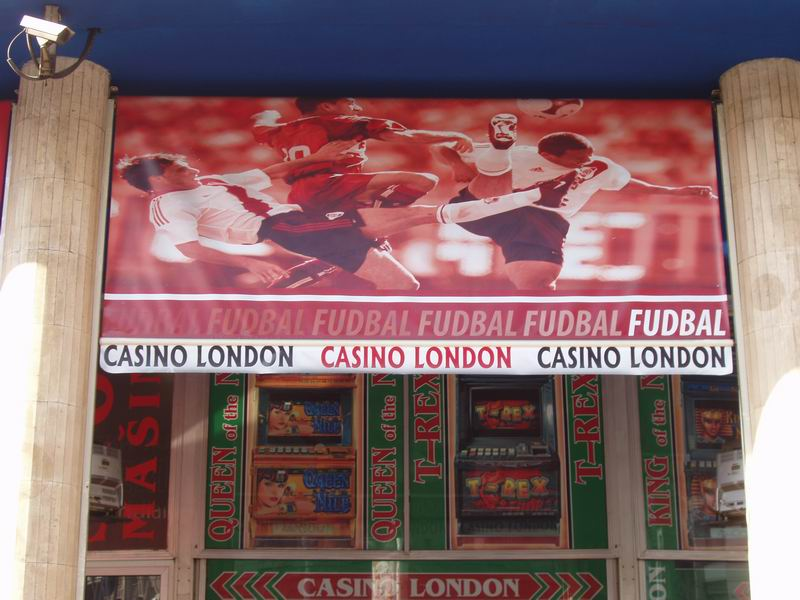 Sun screen at a sports betting house in Belgrade, Serbia, bearing a picture of CA River Plate players. November 2005.